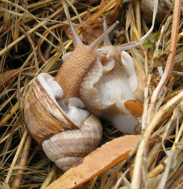 The Hermon Snail Helix pachya, formerly assigned as Helix texta